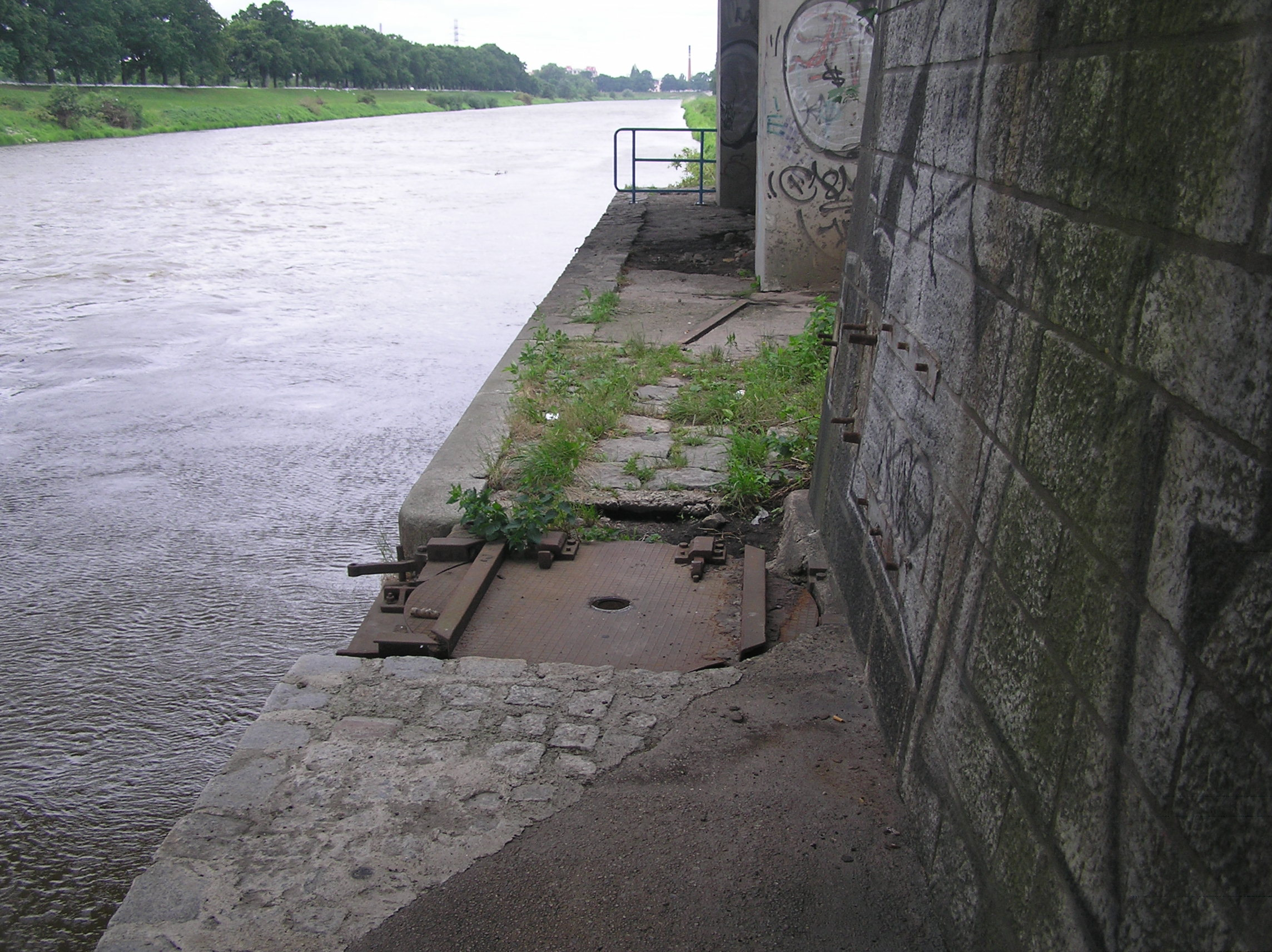 Wrocław, Zacisze Weir, turntable (rail)